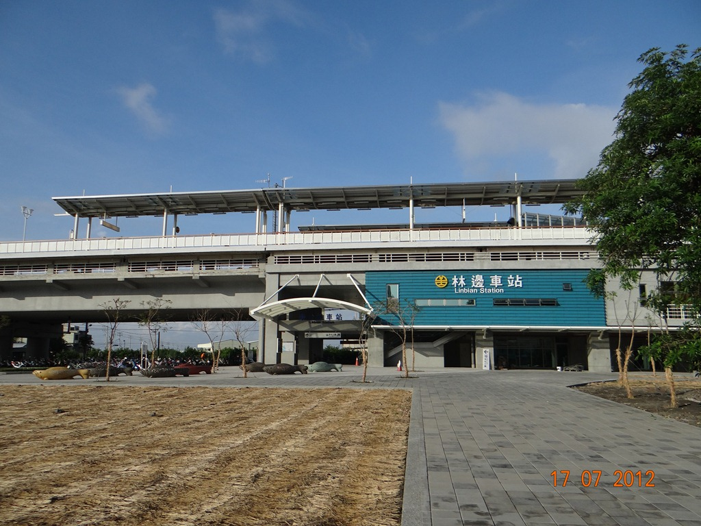 Linbian Station, Taiwan Railway Administration.